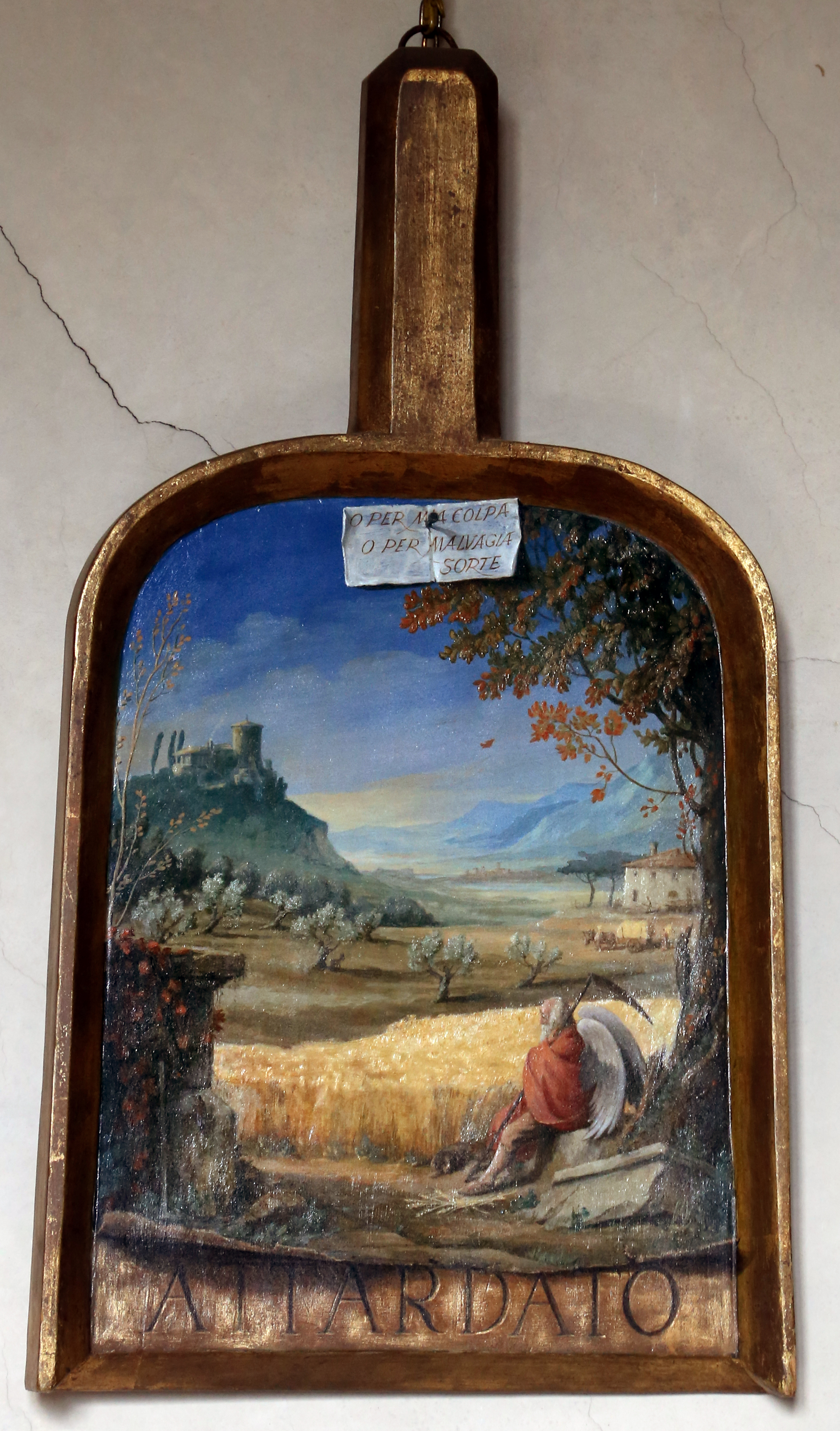 Accademia della Crusca